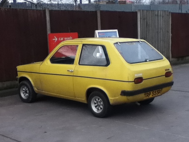 Spotted this parked at the Total Petrol Station on Oldham Road, Newton Heath on Tuesday 15th February. A 1977 Reliant Kitten with a traditional Northampton (RP) registration mark.